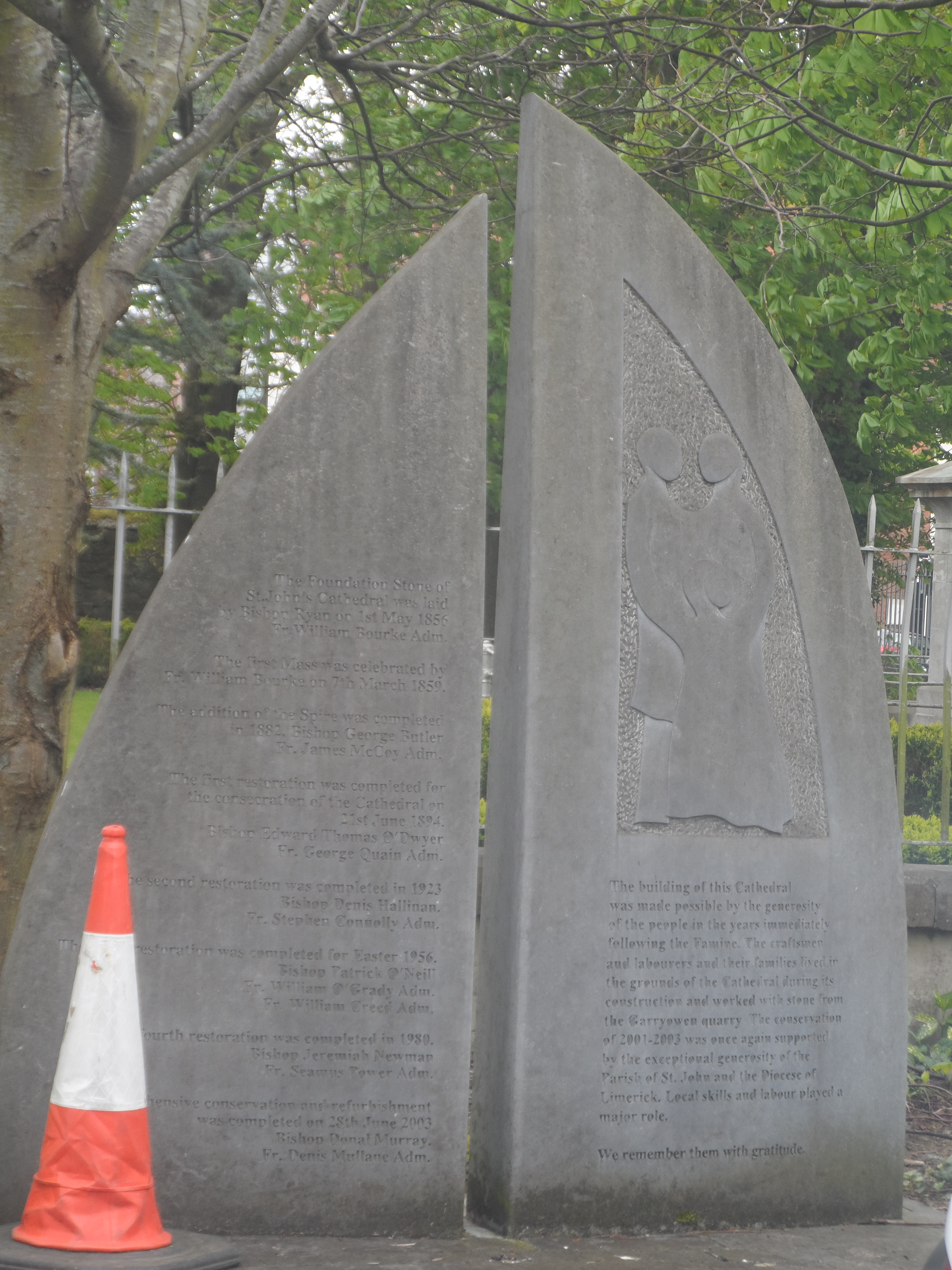 Stone at John's Cathedral Limk